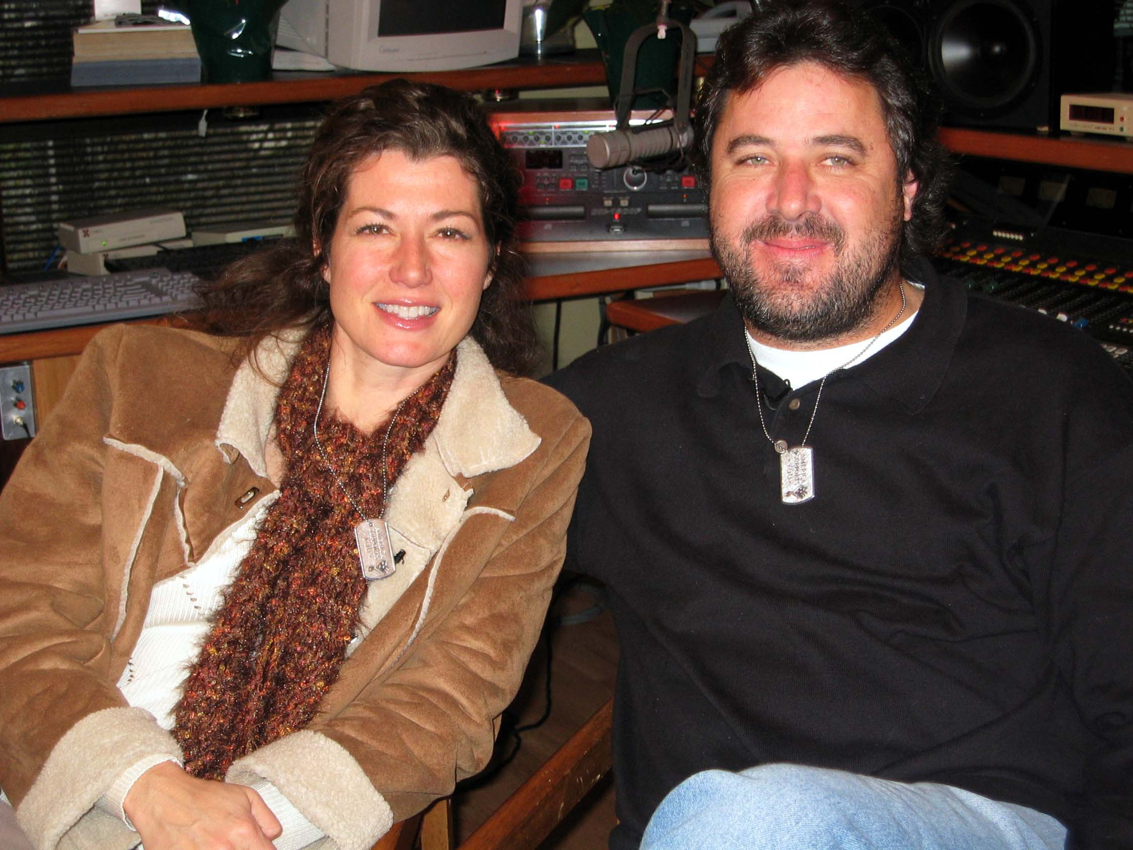 Amy Grant and Vince Gill as part of an "America Supports You" performance in December 2004.